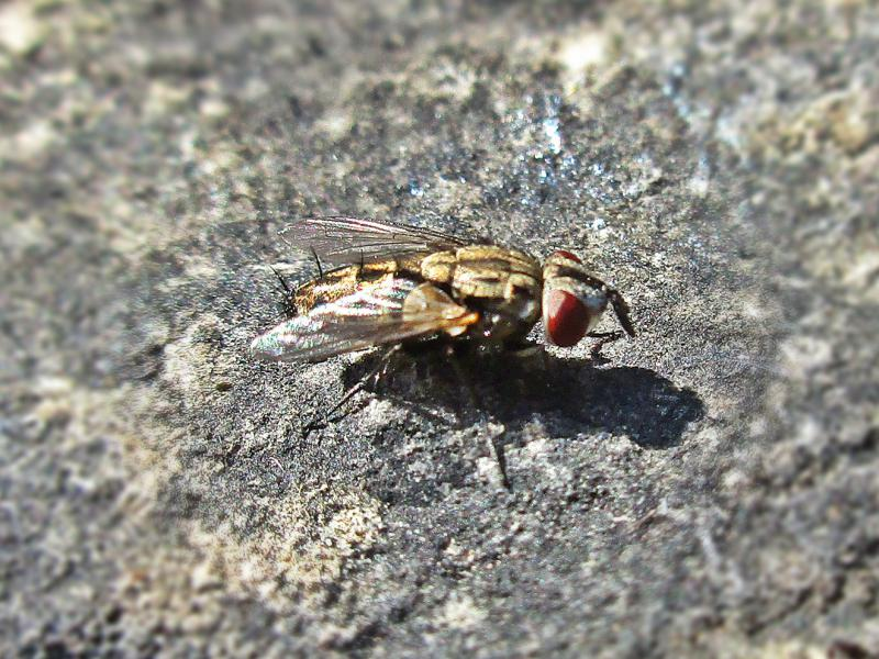 Metopia spec. (Diptera sp.), Nijmegen, the Netherlands